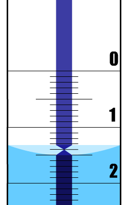 scheme of conical mark on Schelbach burette made in Macromedia Flash 5